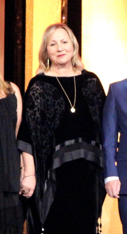 Executive Producer/Director Mimi Leder accepting the Peabody for "The Leftovers"